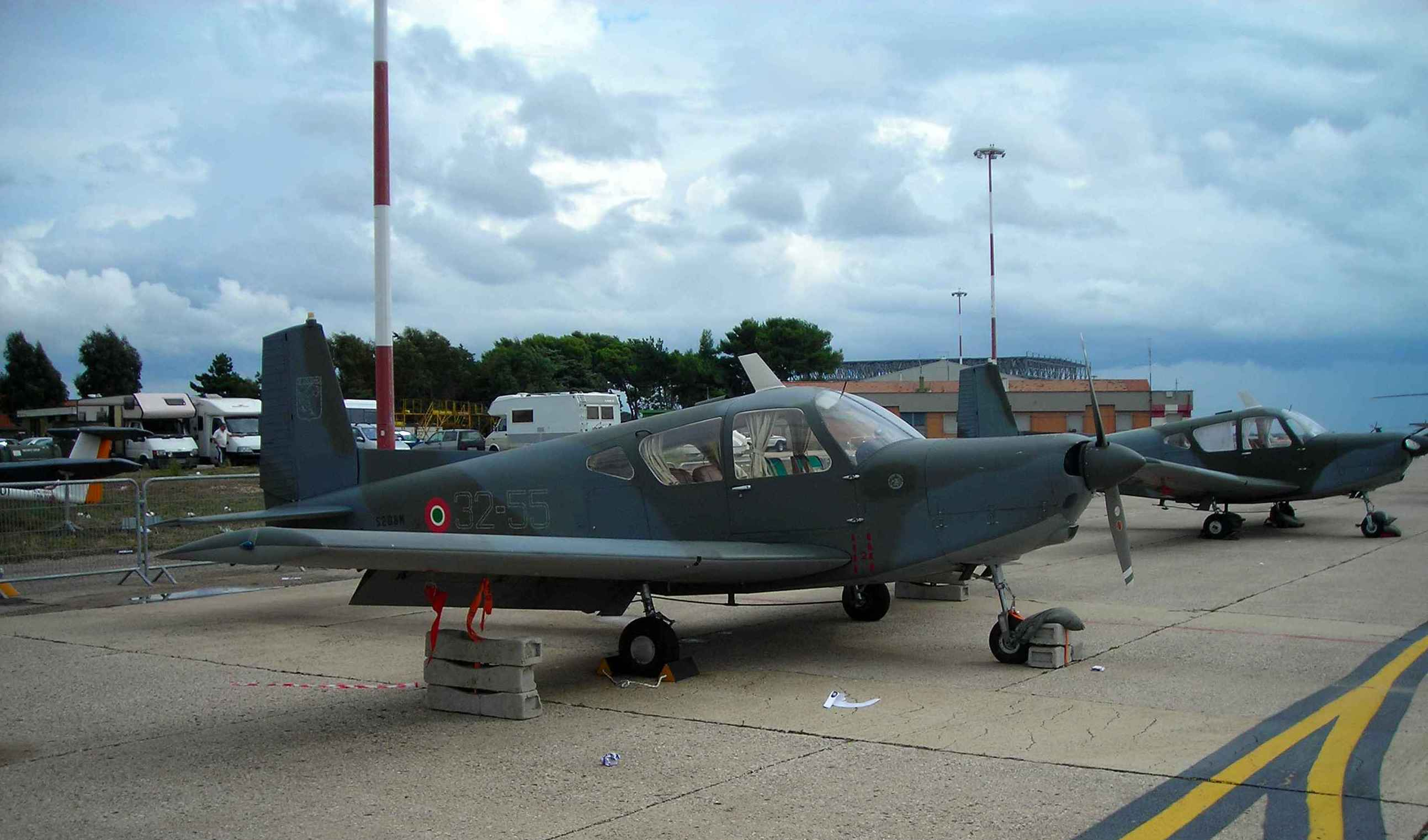 SIAI S.208, Italian aircraft used as aerotow for glider and training. Picture taken during "Giornata Azzurra" 2006 (Italian Air Force airshow) at Pratica di Mare AFB, Italy.